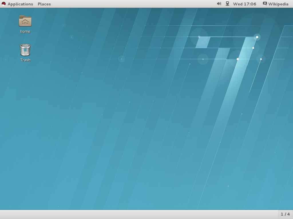 Default Workspace of RHEL 7